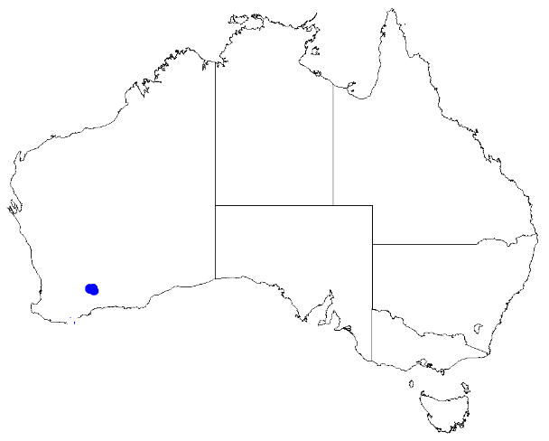 Boronia westringioides occurrence data downloaded from Australasian Virtual Herbarium 10 April 2019 using This download included all the environmental overlay fields and ALA's data checking fields including "cultivated / escapee", "outside expert range for species", "latitude is negated", "coordinates are transposed", "taxon misidentified", "habitat incorrect for species", and "suspected outlier" (711 fields). Deleting occurrences for which any of the above were true, 46 specimens with coordinates were deleted.